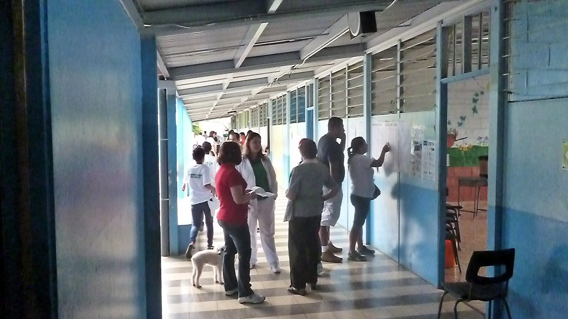 Voters at Quesada during Costa Rican general election, 2014.